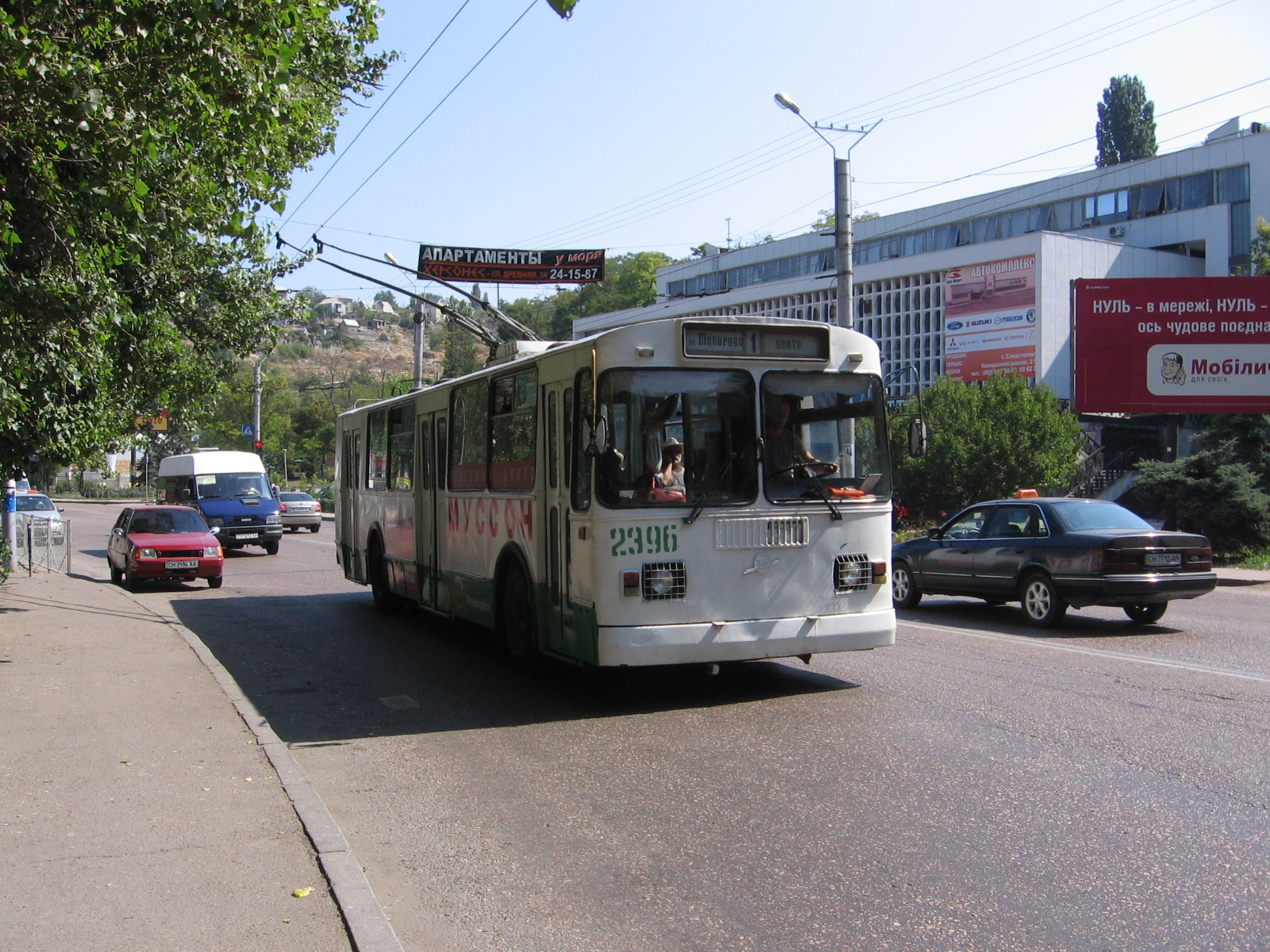 Sevastopol 1 ul.Makarova - Tsentr n. 2396 not far from the Bus Terminal. Trolleybus model is ZiU-9.